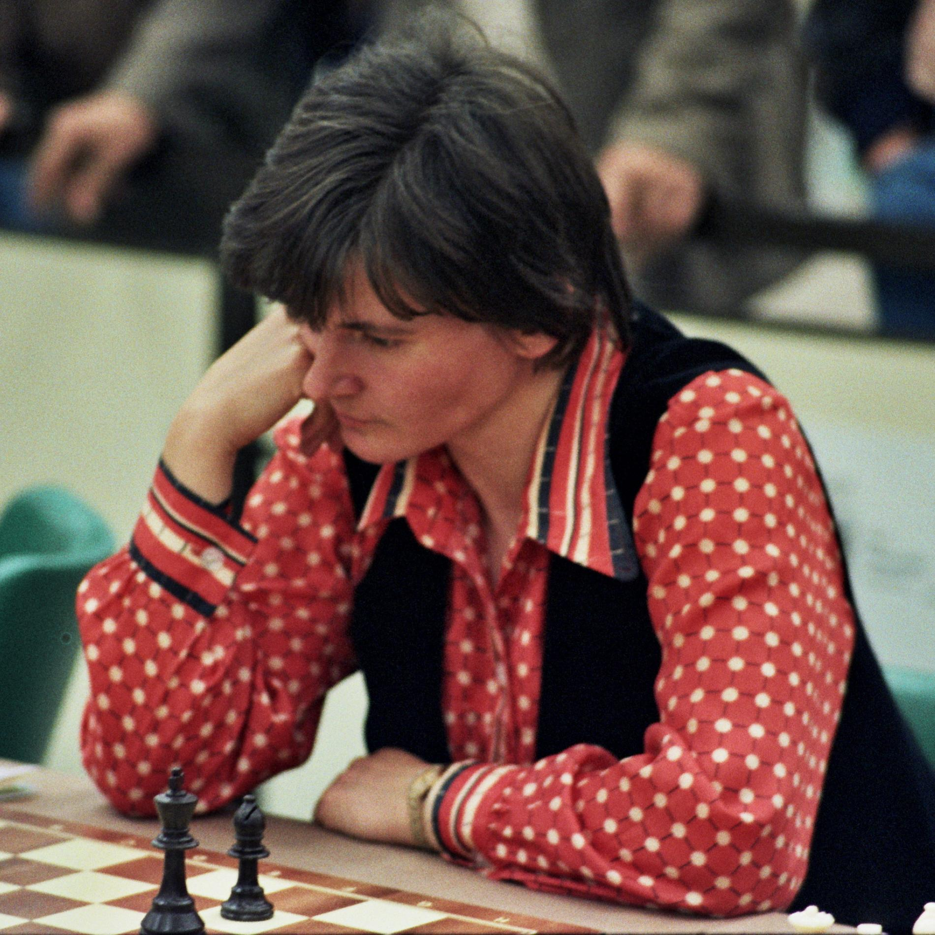 Lidia Semenova, Chess Olympiad 1984 in Saloniki, Photographer Gerhard Hund.